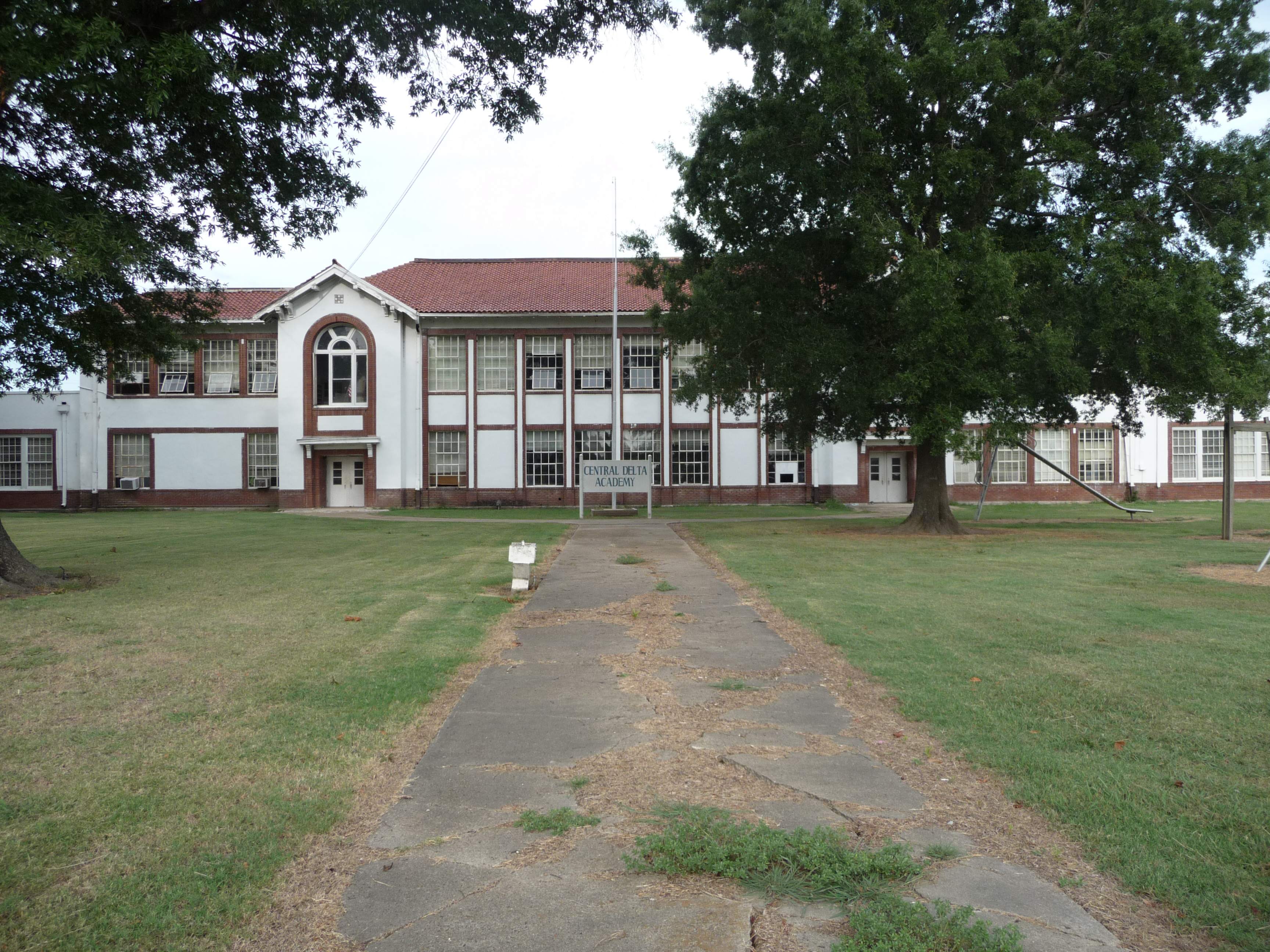 Inverness High School (later Central Delta Academy). Originally the white school in Inverness, this campus later became the Central Delta Academy. The administration building was built in 1922 and designed by Jackson architect N.W. Overstreet. The entire campus was demolished in September 2010 only months after graduating the final class in May. See